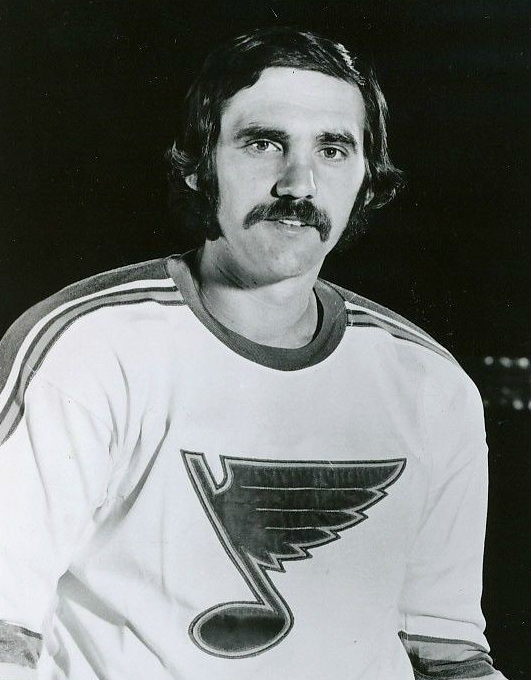 Photo of ice hockey player Brent Hughes as a member of the St. Louis Blues. The item has no copyright markings on it as can be seen in the links above.